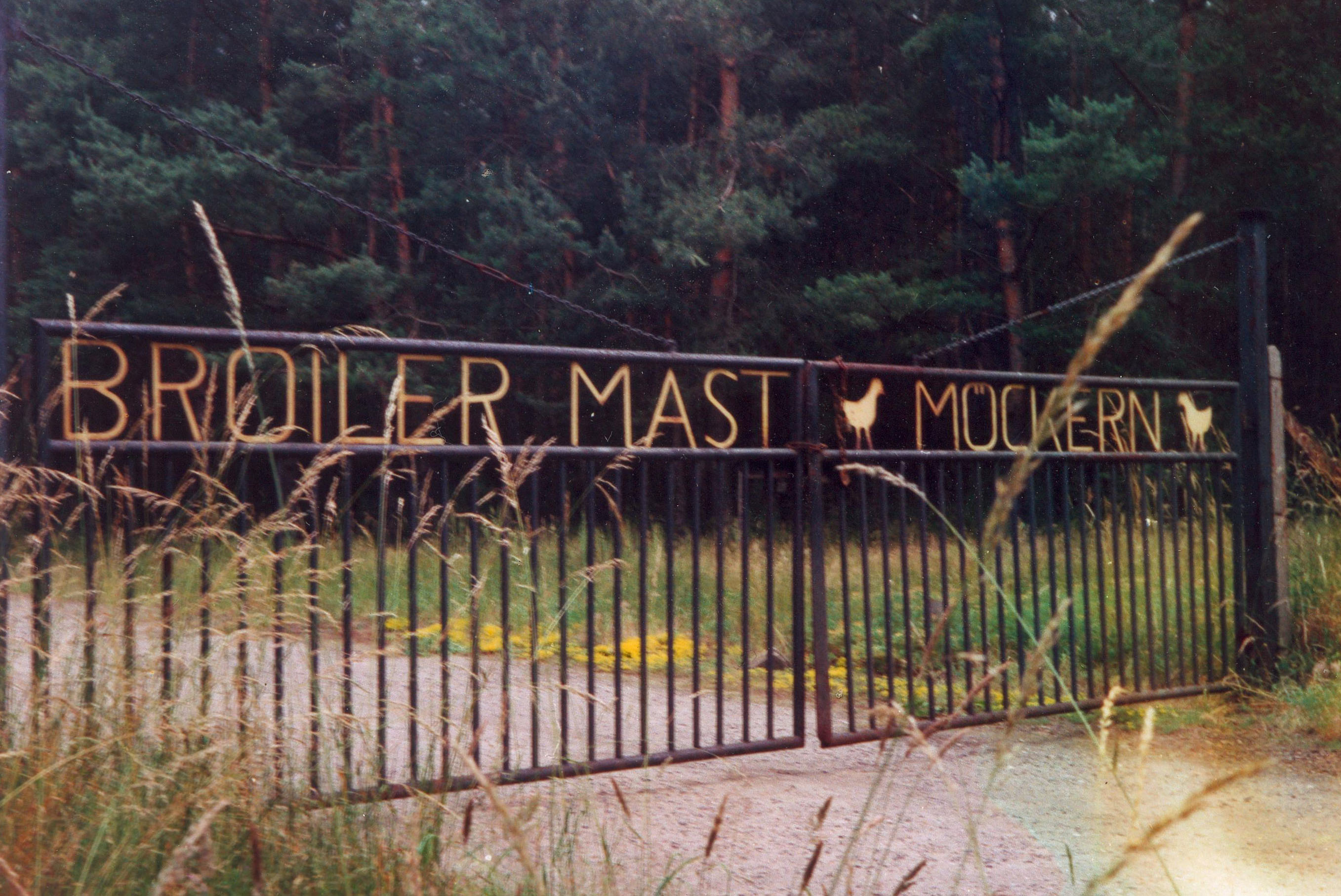 Gate of an abandoned chicken farm somewhere in the east german countryside between Magdeburg and Berlin. I took the picture when cycling from Hannover to Berlin in the summer of 1995.